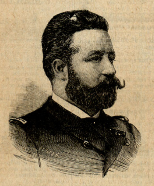 José Bento Ferreira de Almeida (1847-1902), Portuguese Navy Officer, member of Parliament, and government minister.